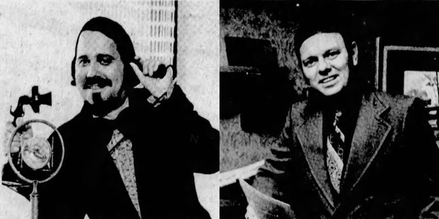 This is a portion of an ad that appeared in the April 25, 1976 issue of the The Sunday Dispatch and can be dated from that publication; it is pre-1978. These have been extracted and edited for the relevant information, and are mechanical scans of original promotional photographs taken for WQUA. There are no copyright markings as can be seen at the full view link. The ad is not covered by any copyrights for the The Sunday Dispatch, successor entity The Dispatch–Argus, WQUA or Colona Avenue State Bank. US Copyright Office page 3-periodicals are collective works (PDF) "A notice for the collective work will not serve as the notice for advertisements inserted on behalf of persons other than the copyright owner of the collective work. These advertisements should each bear a separate notice in the name of the copyright owner of the advertisement." No trademark existed for the advertiser (Colona Avenue State Bank) nor for WQUA at the date of publication, nor are any copyrights in existence in the present day.